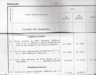 Navy List - Álvaro de Melo Machado